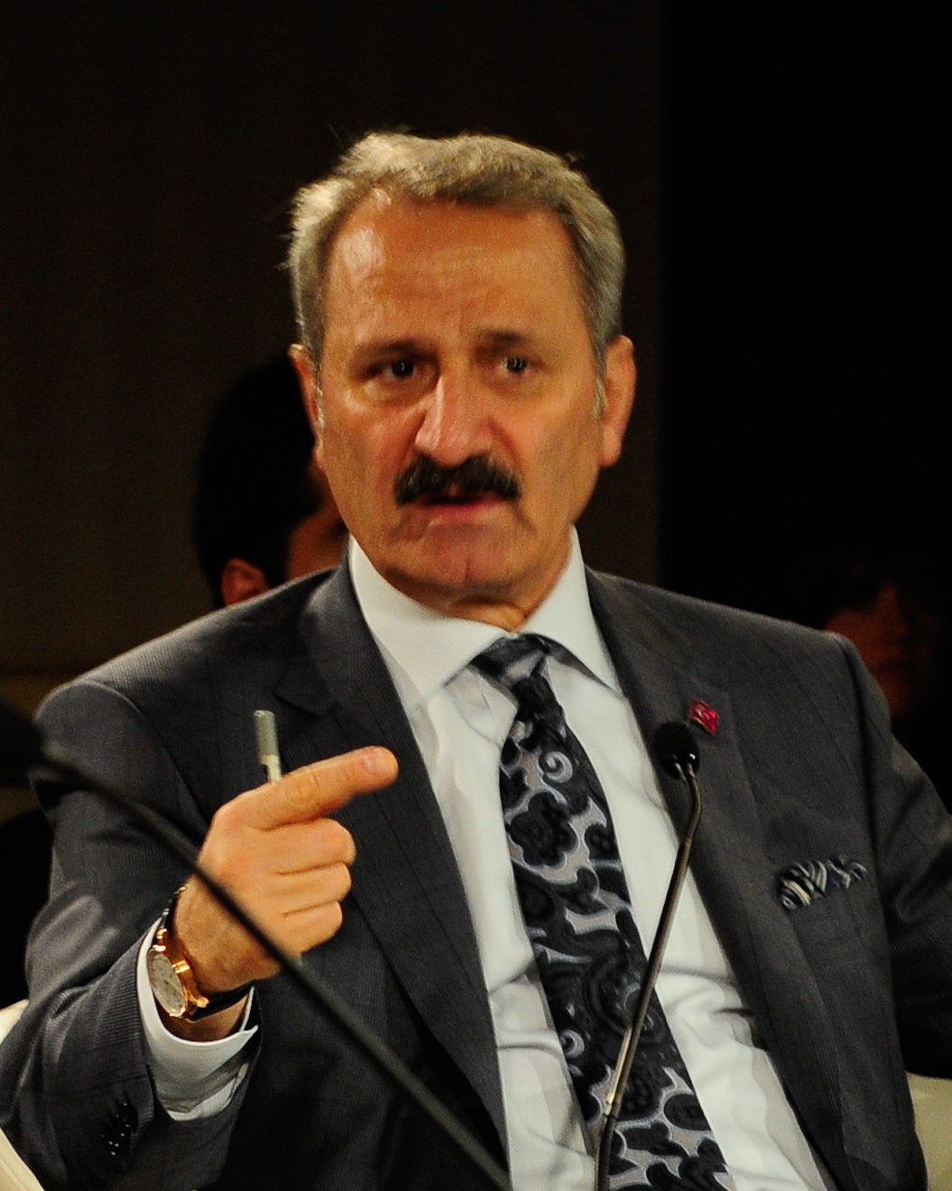 ISTANBUL, TURKEY, 5 June 2012 - Mehmet Zafer Caglayan, Minister of Economy of Turkey, speaks at the World Economic Forum on the Middle East, North Africa and Eurasia in Istanbul, 4-6 June 2012. Copyright World Economic Forum ( by Monique Jaques